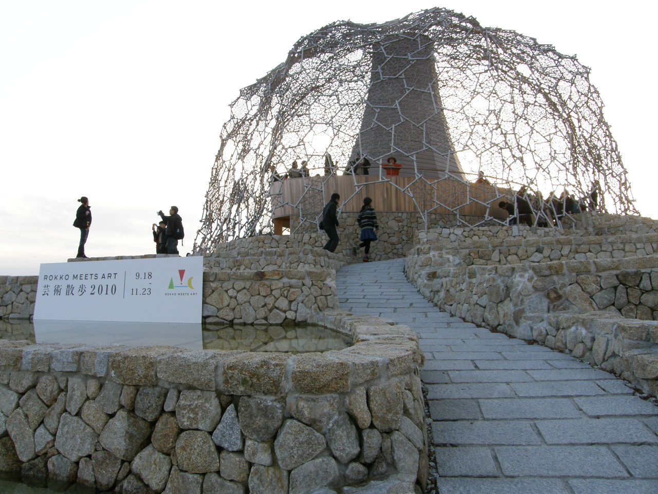 Rokko-shidare 六甲枝垂れ-三分一博志 Rokko garden terrace